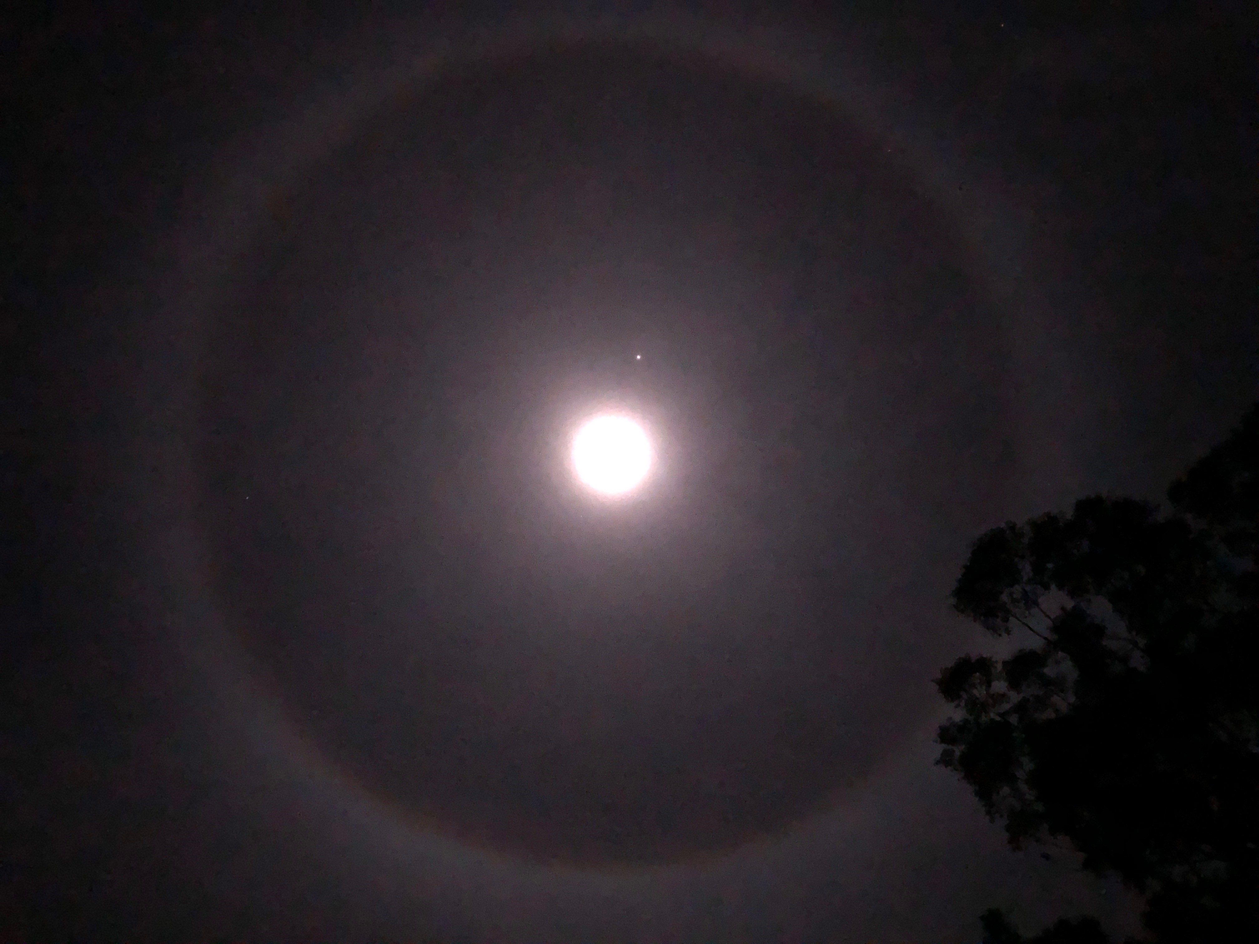 Halo Moon - Springfield NSW - Australia - 27 May 2018